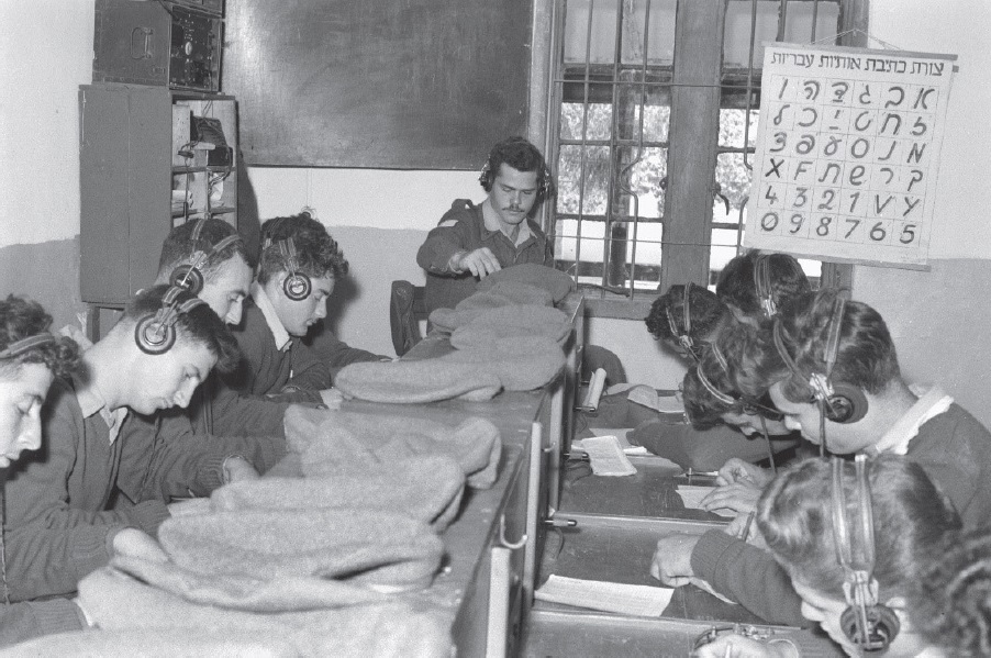 Bahad 7 mors students